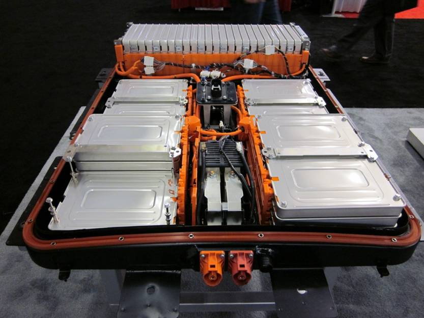 Battery-pack of the Nissan Leaf.